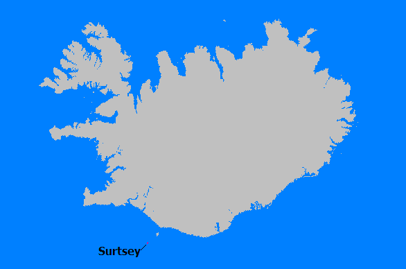 Map of Surtsey position, Iceland